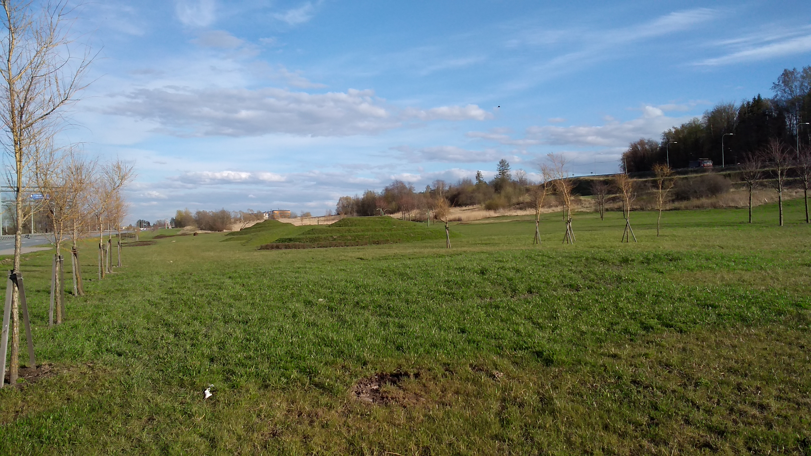 Dalnyaya Rogatka park